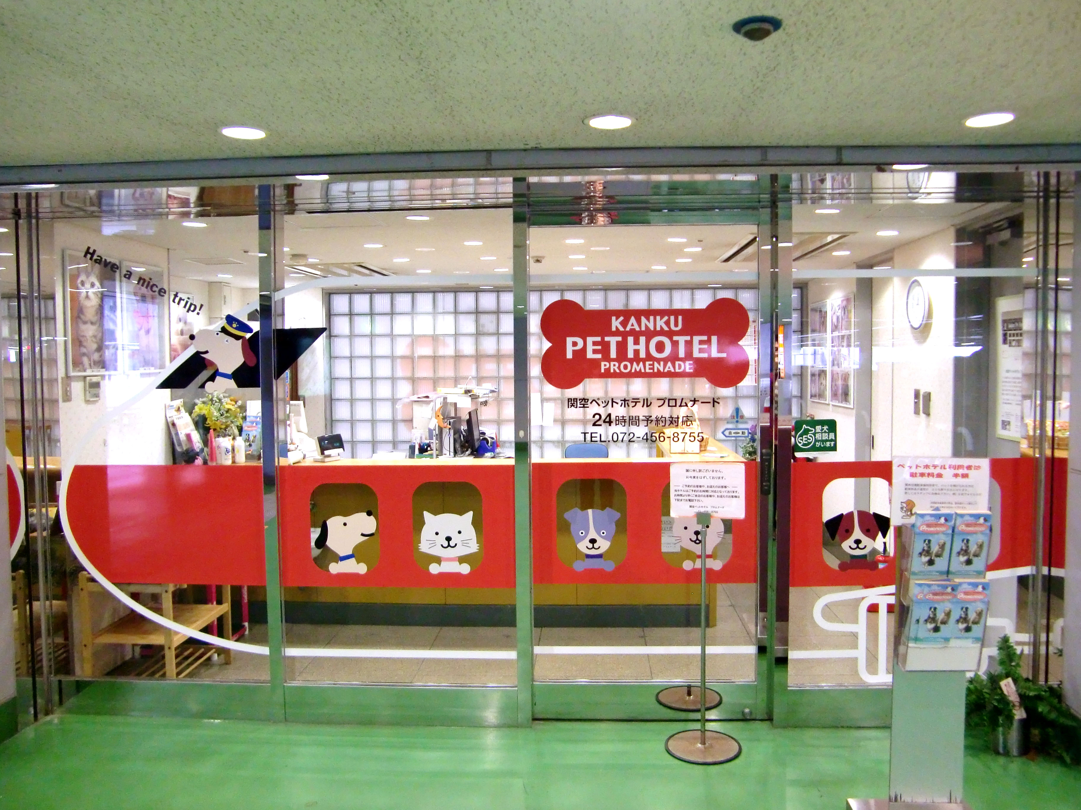 Kanku Pet Hotel,Izumisano-City Osaka Japan.